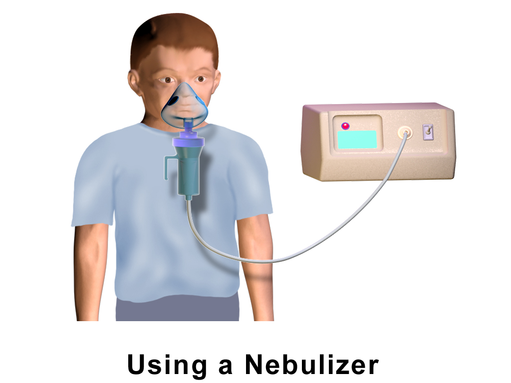 An illustration depicting nebulizer mask.